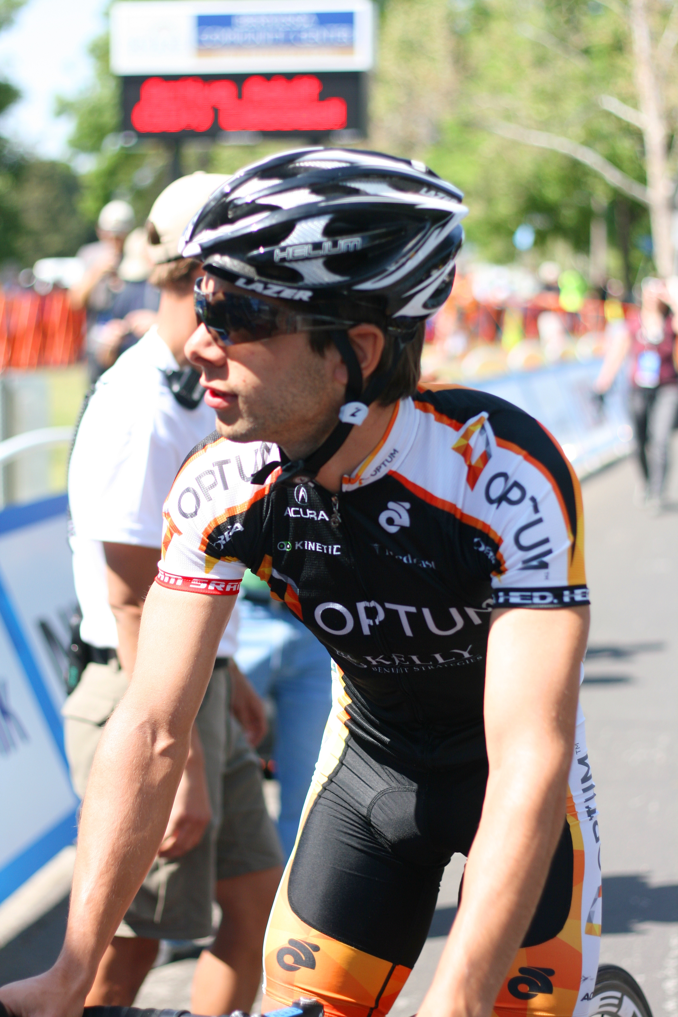 OPTUM KELLY BENEFIT This team rode SRAM Red 2012 Amgen Tour of California Stage 3 start, Berryessa Road, San Jose, CA